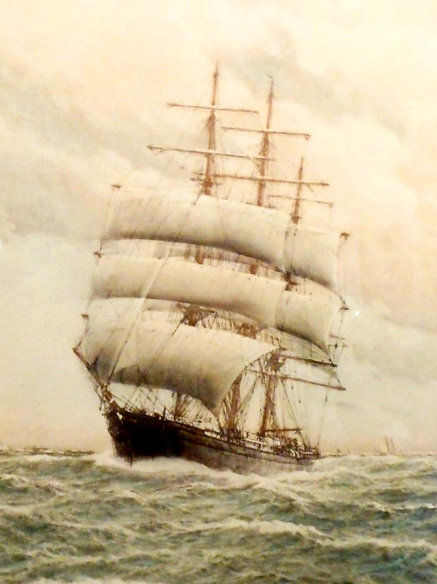 Print of painting dated 1909